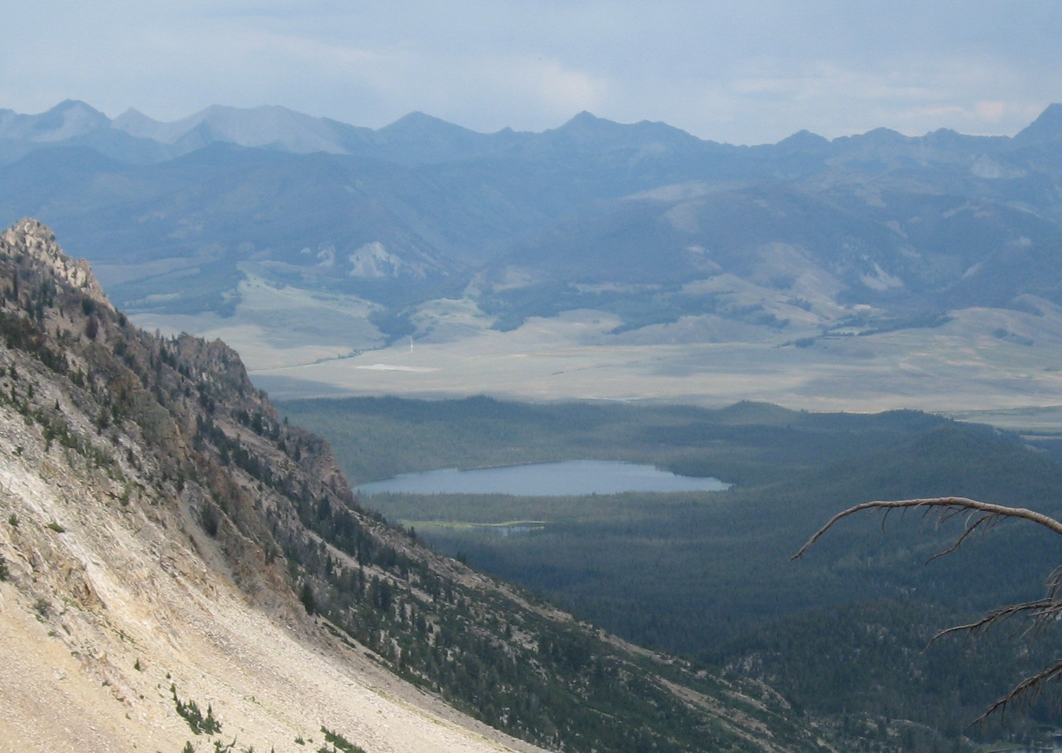 Yellow Belly Lake in the Sawtooth National Recreation Area from Sand Mountain Pass with the White Cloud Mountains in the background